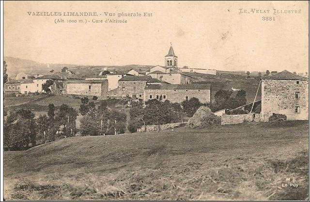 Old postcard of Vazeilles-Limandre, general view